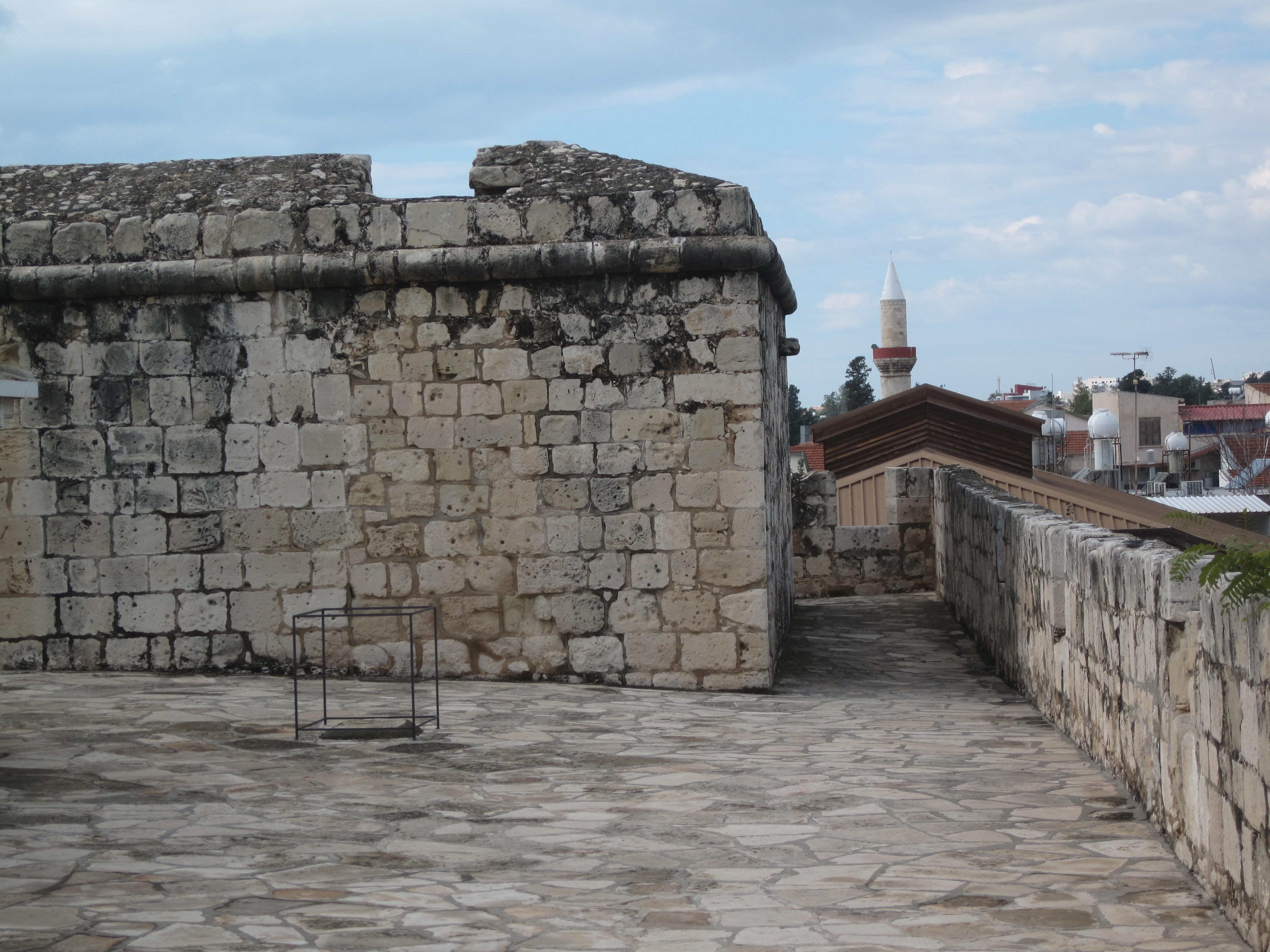 The Medieval Castle of Limassol, Cyprus